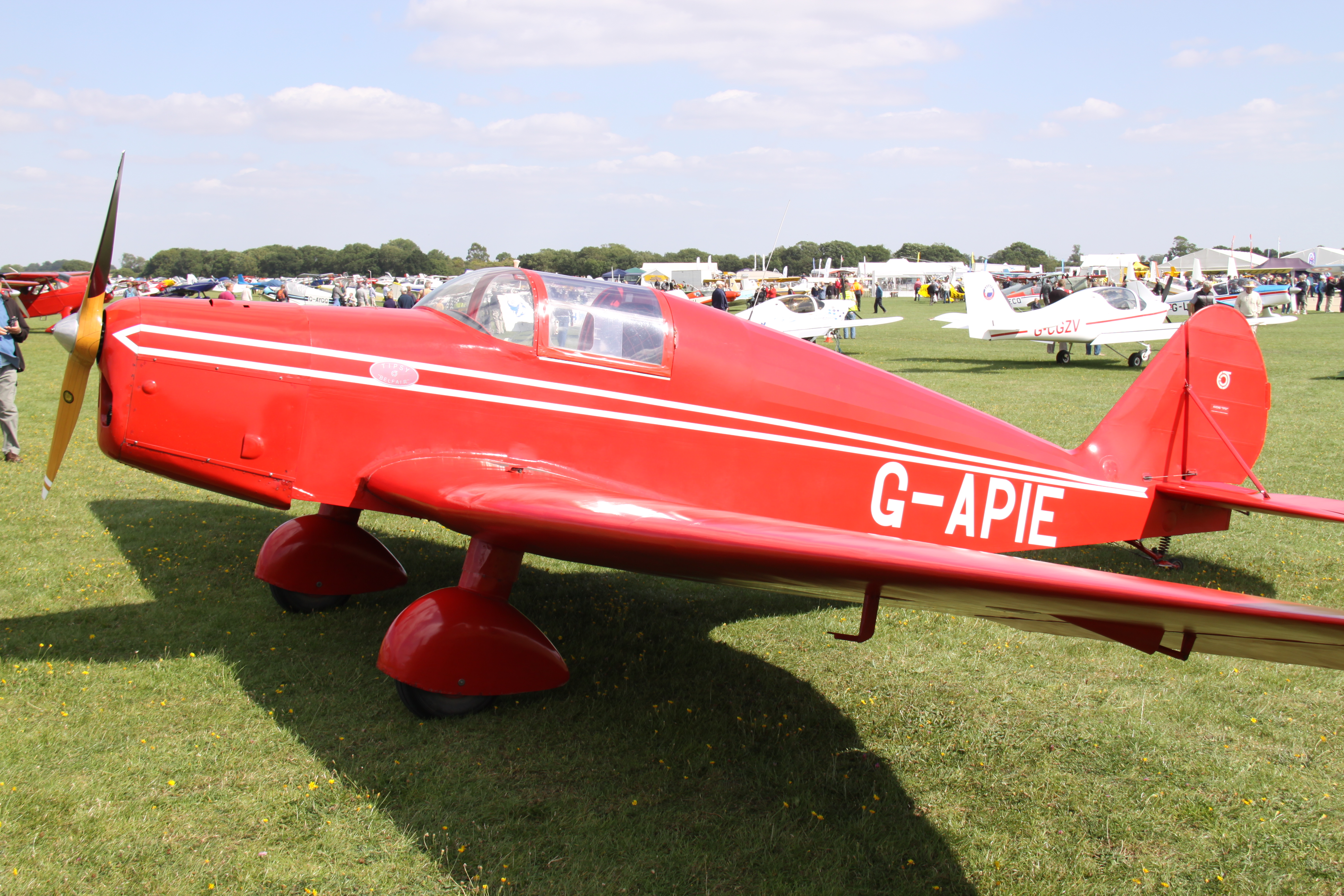 At Sywell Airfield